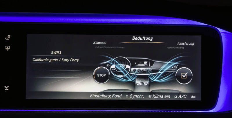 Mercedes-Benz S-Class Ambience The Essence of Luxury